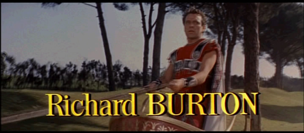 Screenshot of Richard Burton from the trailer for the film Cleopatra.